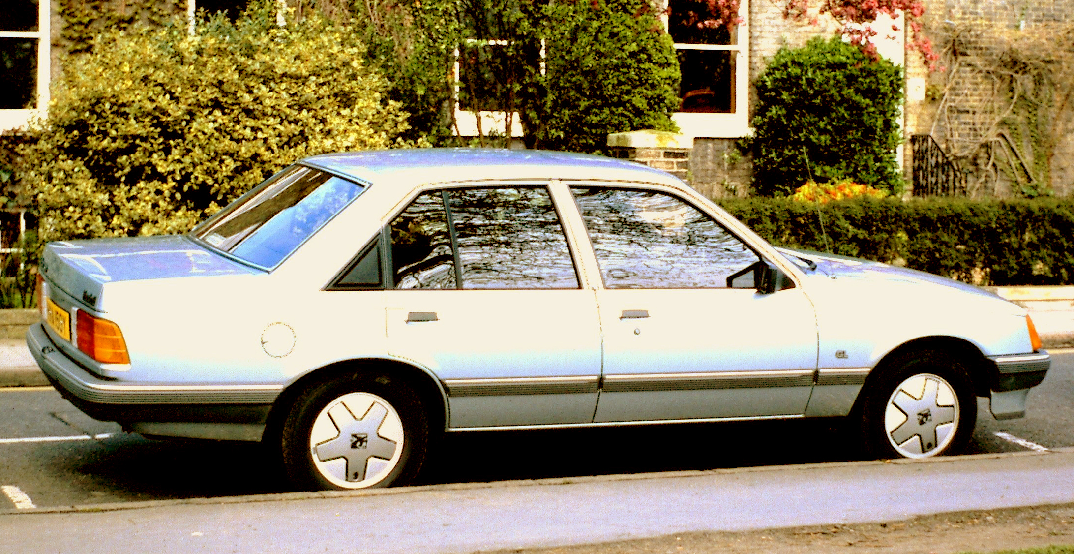 Vauxhall Carlton outside Parkside in Cambridge